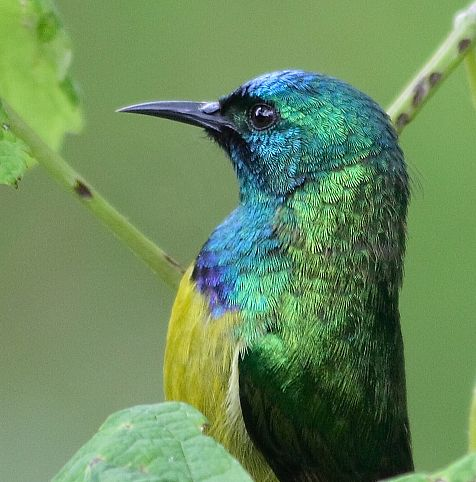 A male Collared Sunbird (Hedydipna collaris) in a grapevine in the garden. A distracting leaf in the background was removed using Photoshop.